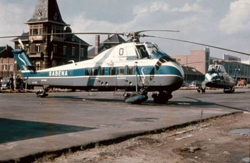 Helikopter van Sabena op de Helihaven van Brussel